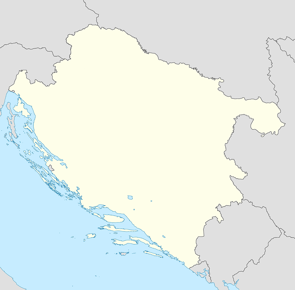 Locator Map of the Independent State Of Croatia in 1943